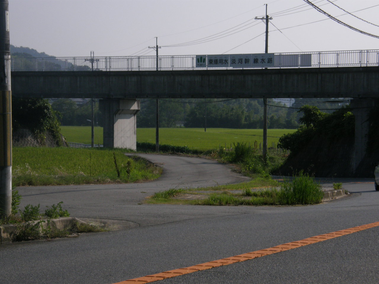 ROUTE428&OGO-SOSUI